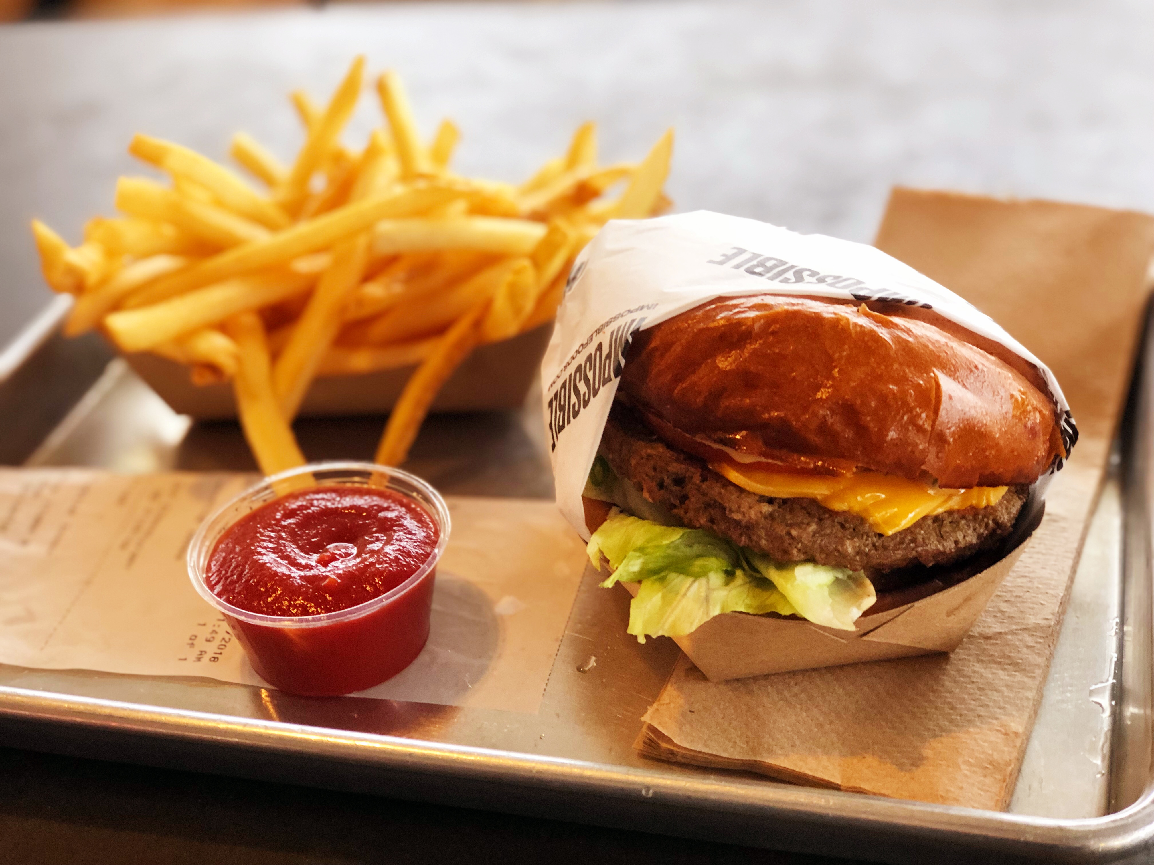 An Impossible Burger with fries and ketchup at Gott's Roadside in Napa, California.